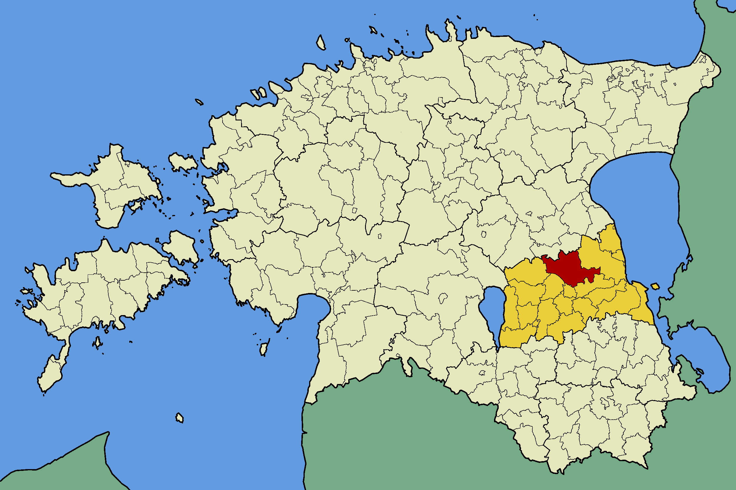 Map of Estonia with borders of municipalities (parishes). Tartu county and Tartu municipality emphasized.